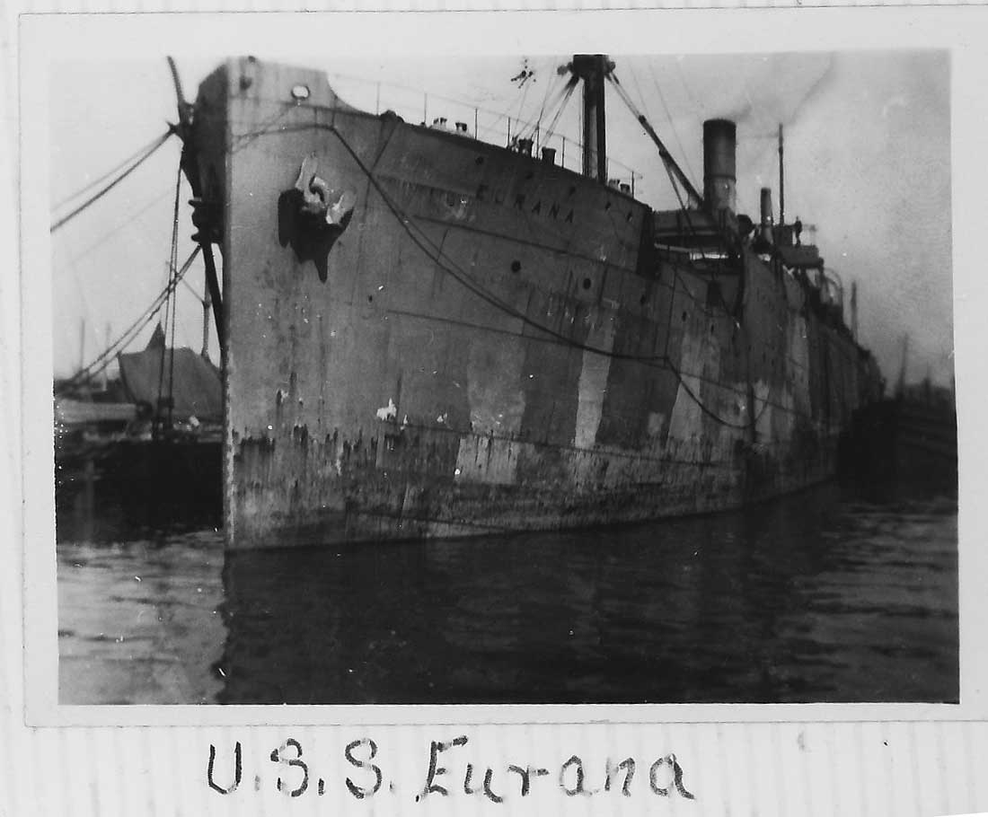 Photo taken by Dr. C. N. Caldwell c. 1919